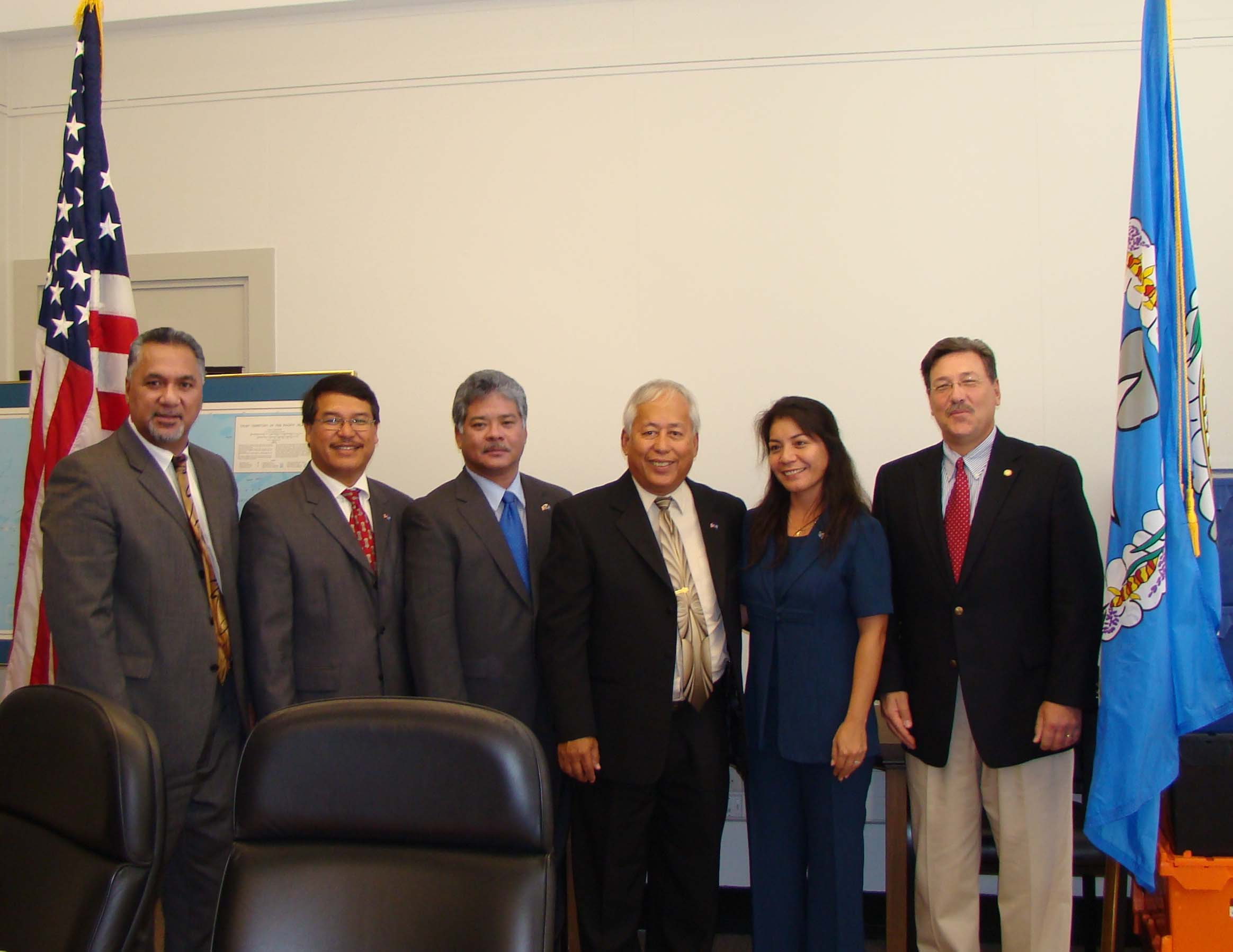 Pictured from left to right: Nikolao Pula, Director of Insular Affairs; CNMI Representative Diego T. Benavente, Chairman, Committee on U.S. & Foreign Relations; CNMI Speaker of the Legislature Arnold I. Palacios; Pete P. Reyes, President of the Senate; Glenna P. Reyes, Deputy Director, Legislative Bureau; Doug Domenech, Acting Deputy Assistant Secretary for Insular Affairs [Photo Credit: Randy Beffrey, OIA]